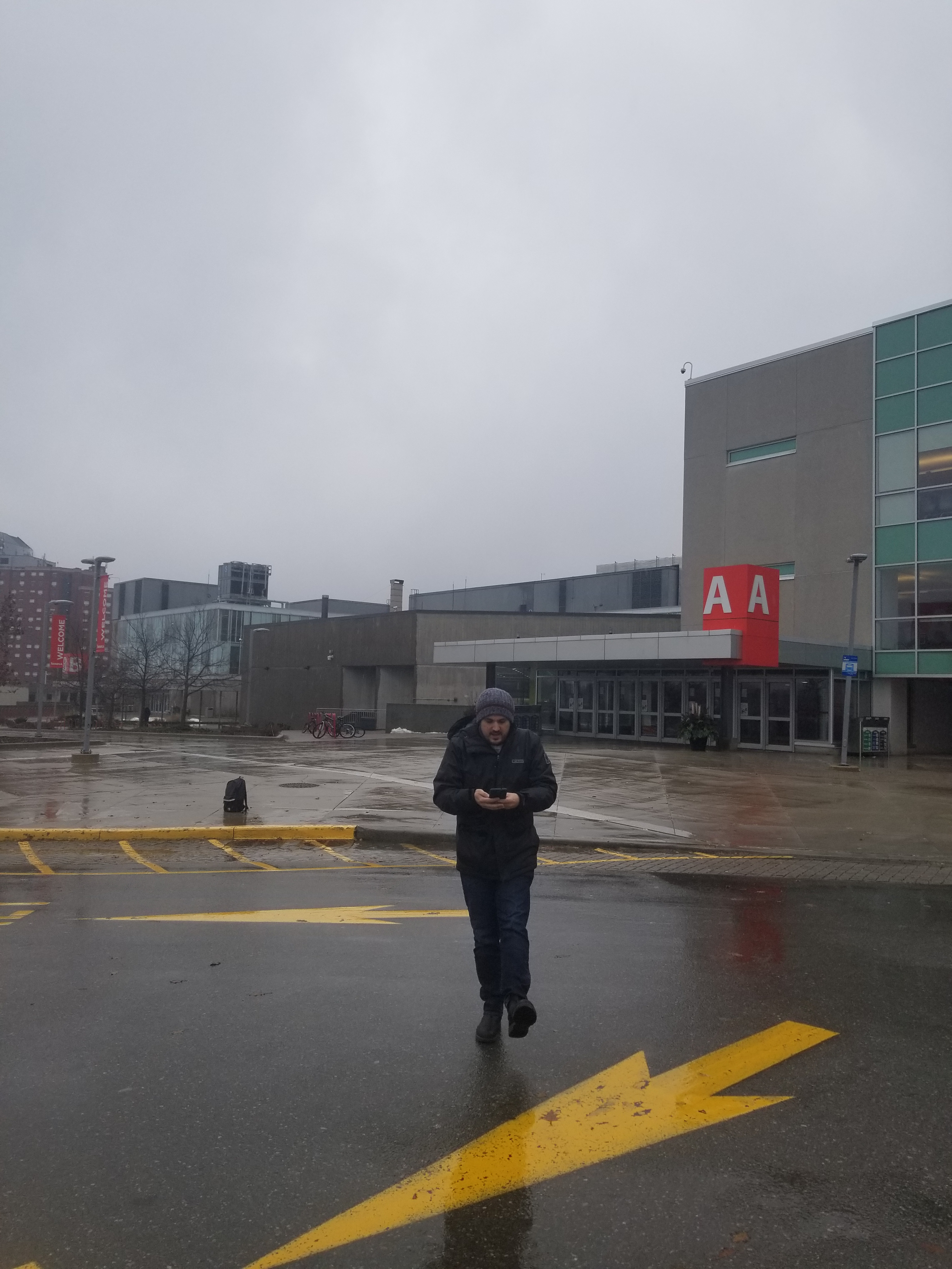 Distracted Walking